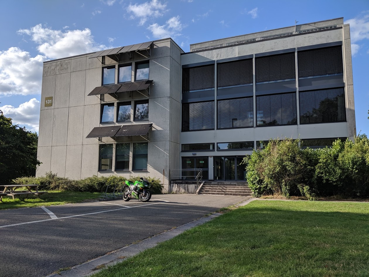 Front view of the main building of the Electrical Energy Laboratory (EELAB) of Ghent University at Tech Lane Ghent, Zwijnaarde.